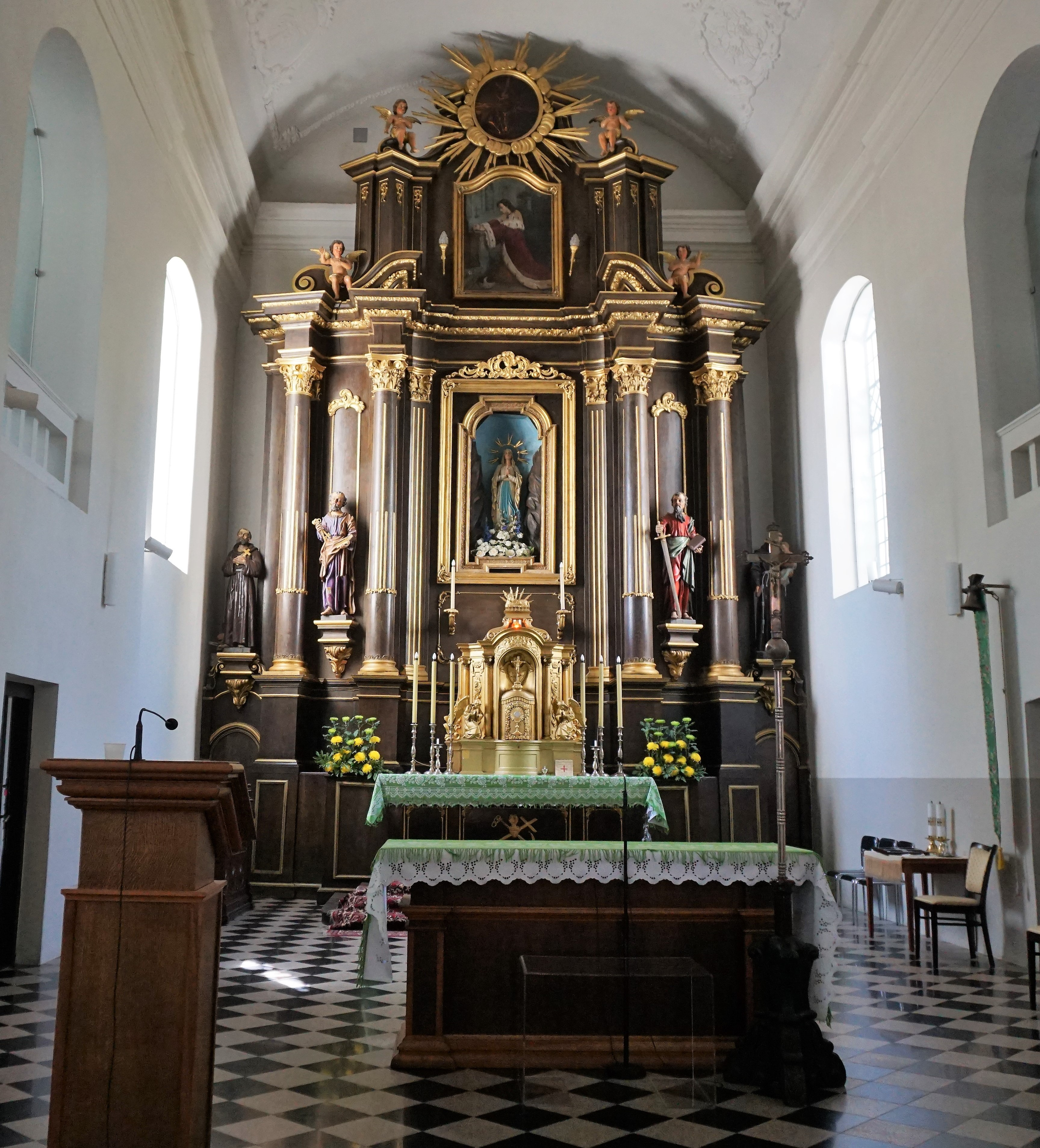 Central altar in the St. Michael the Archangel Minor Basilica of Marijampolė